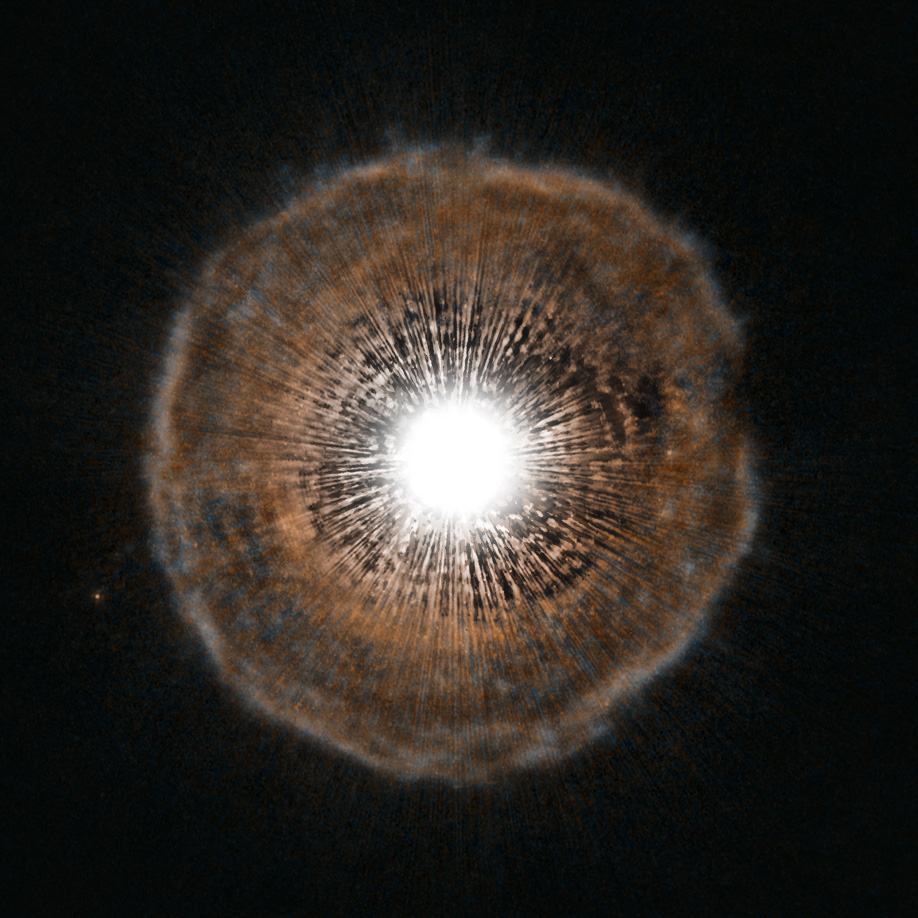 A bright star is surrounded by a tenuous shell of gas in this unusual image from the NASA/ESA Hubble Space Telescope. U Camelopardalis, or U Cam for short, is a star nearing the end of its life. As it begins to run low on fuel, it is becoming unstable. Every few thousand years, it coughs out a nearly spherical shell of gas as a layer of helium around its core begins to fuse. The gas ejected in the star’s latest eruption is clearly visible in this picture as a faint bubble of gas surrounding the star. U Cam is an example of a carbon star. This is a rare type of star whose atmosphere contains more carbon than oxygen. Due to its low surface gravity, typically as much as half of the total mass of a carbon star may be lost by way of powerful stellar winds. Located in the constellation of Camelopardalis (The Giraffe), near the North Celestial Pole, U Cam itself is actually much smaller than it appears in Hubble’s picture. In fact, the star would easily fit within a single pixel at the centre of the image. Its brightness, however, is enough to overwhelm the capability of Hubble’s Advanced Camera for Surveys making the star look much bigger than it really is. The shell of gas, which is both much larger and much fainter than its parent star, is visible in intricate detail in Hubble’s portrait. While phenomena that occur at the ends of stars’ lives are often quite irregular and unstable (see for example Hubble’s images of Eta Carinae, potw1208a), the shell of gas expelled from U Cam is almost perfectly spherical. The image was produced with the High Resolution Channel of the Advanced Camera for Surveys.